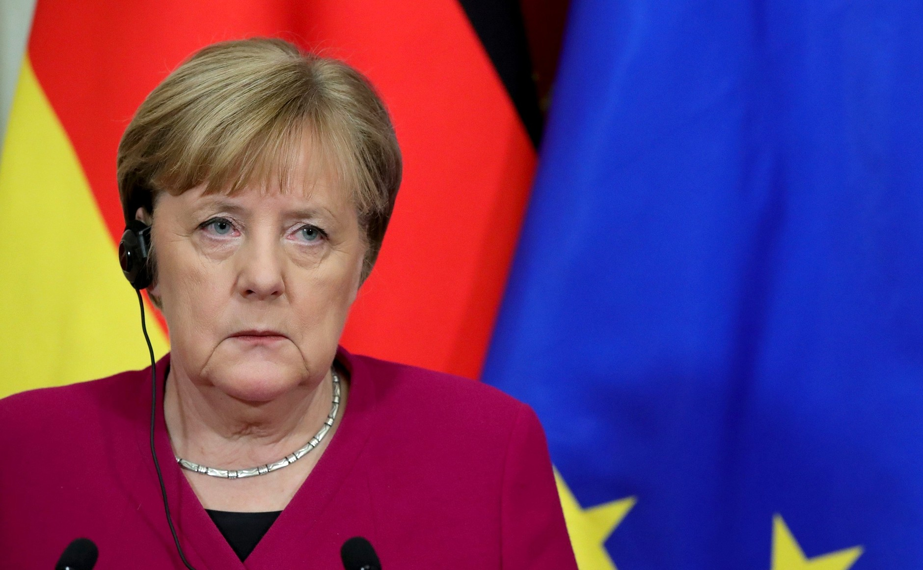 Following the Russian-German talks, Vladimir Putin and Federal Chancellor of Germany Angela Merkel made statements for the press and answered journalists’ questions.